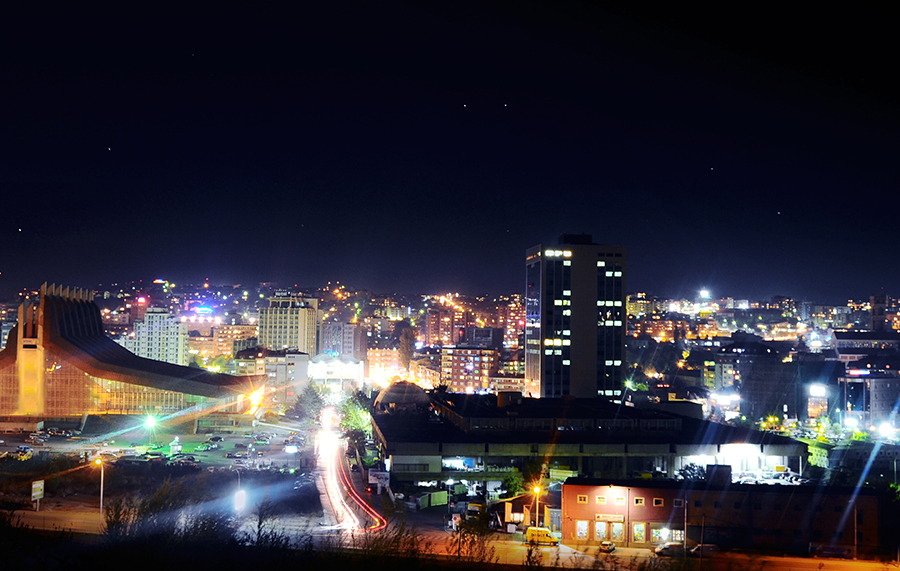 Prishtina City - Kosovo - 03